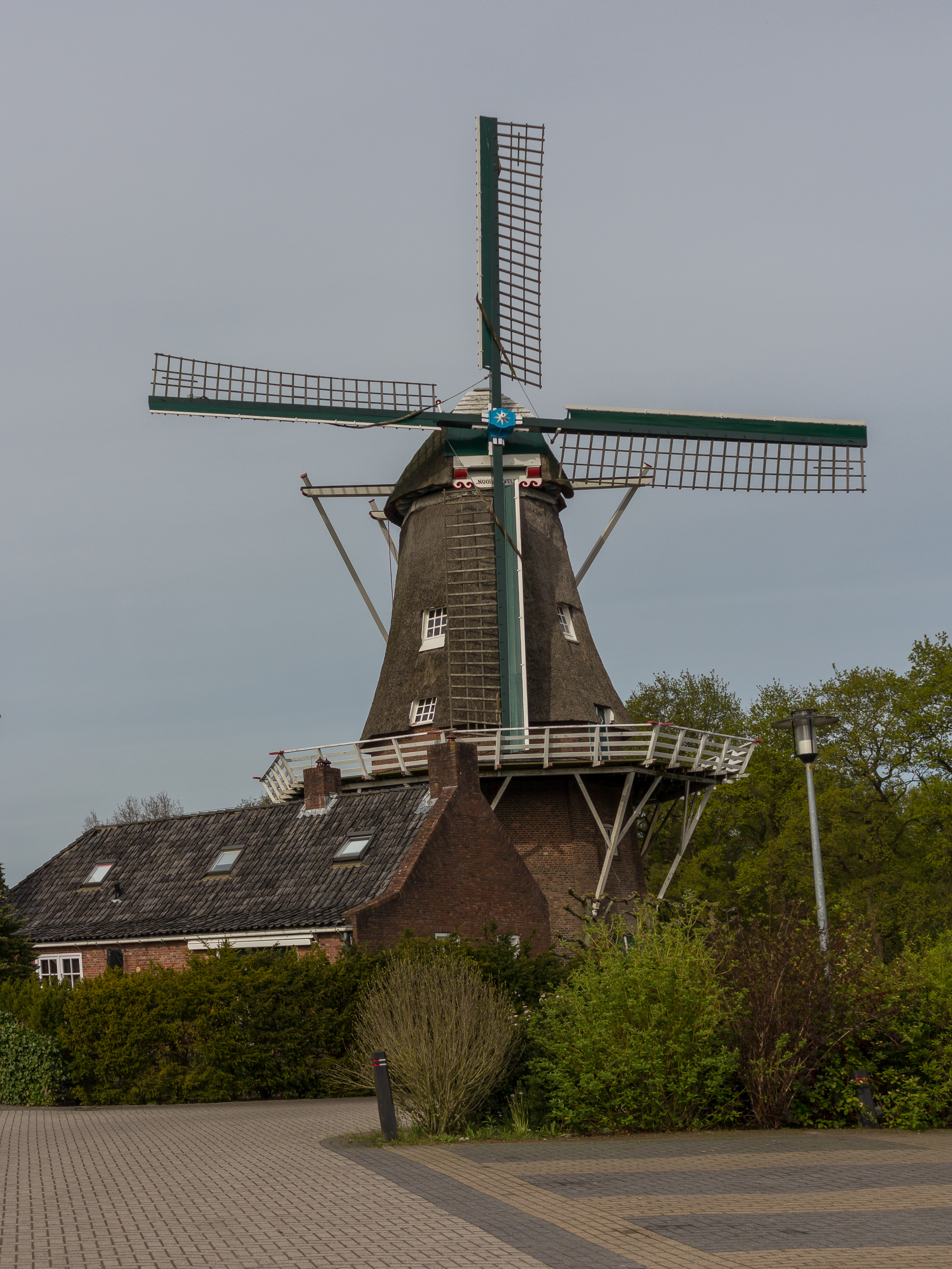 Norg,windmill: korenmolen Noordenveld